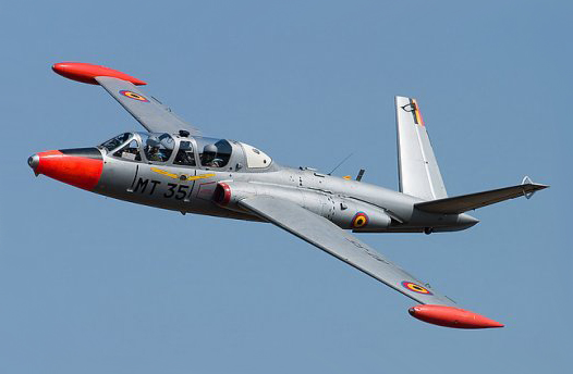 Belgium Fouga Magister